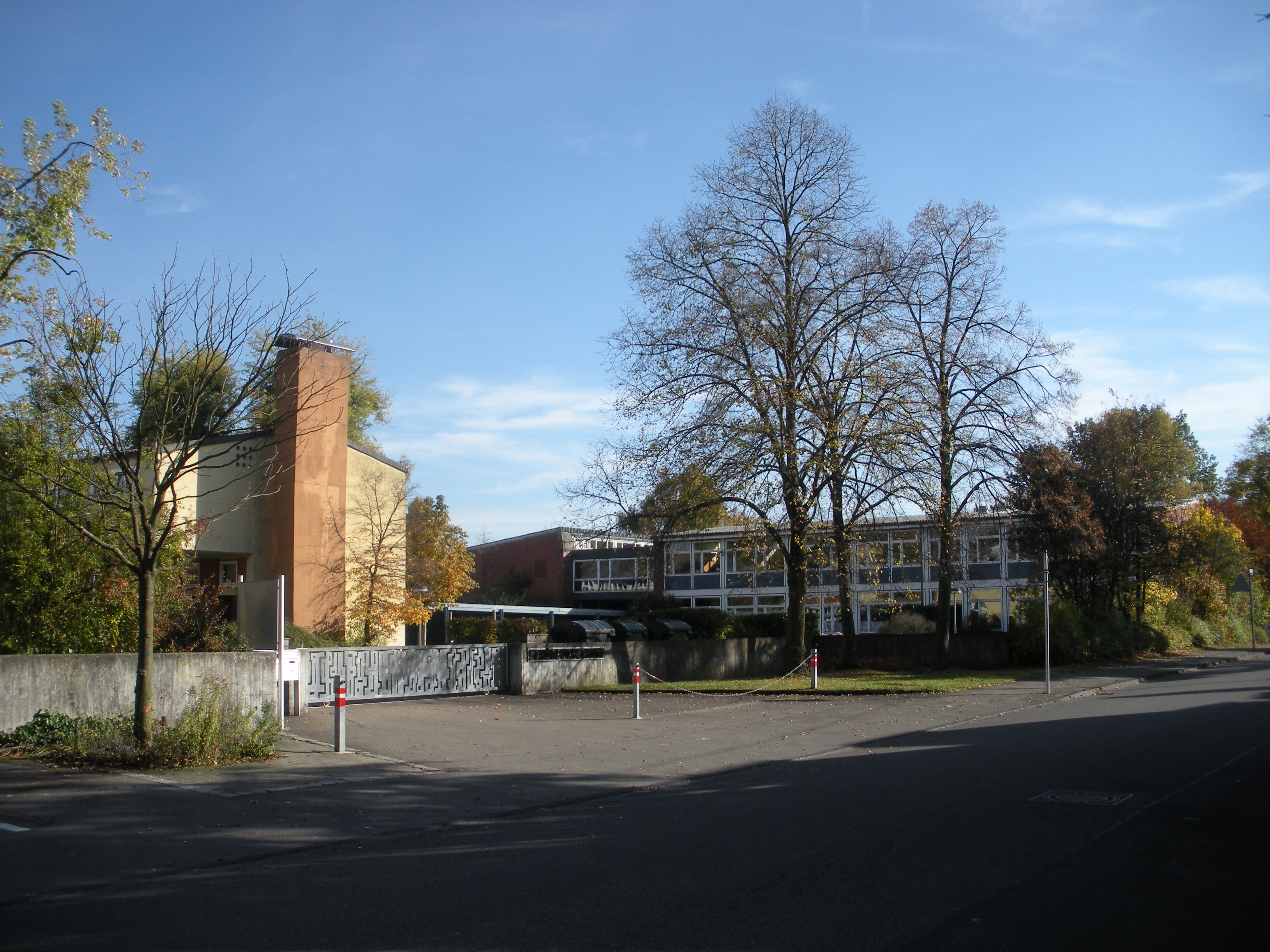 Schönbuch-School in Stuttgart-Dürrlewang